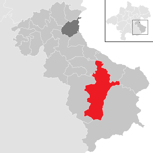 district Steyr-Land